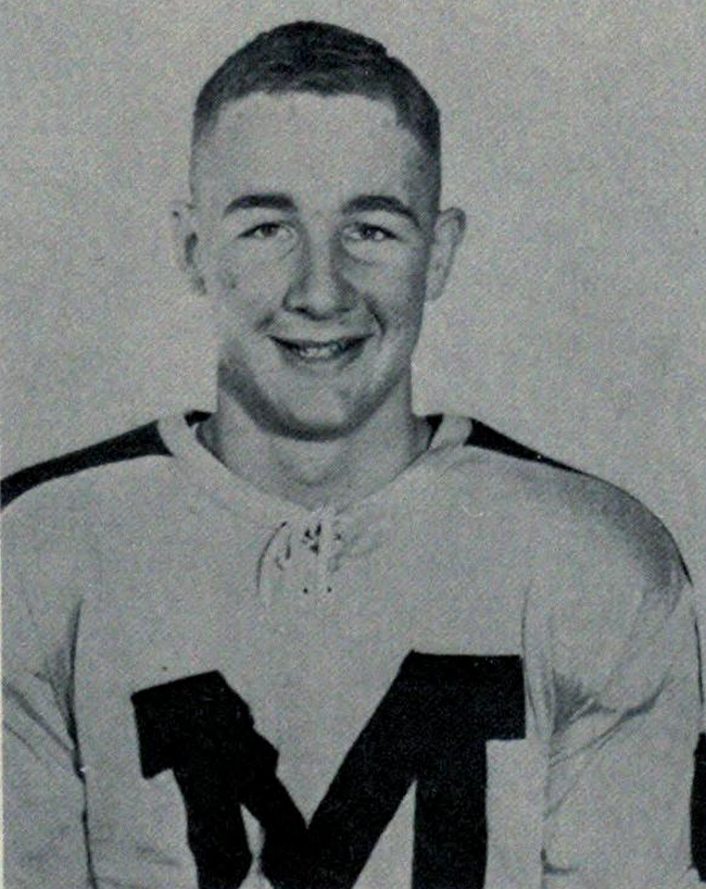 Red Seiling, circa 1962